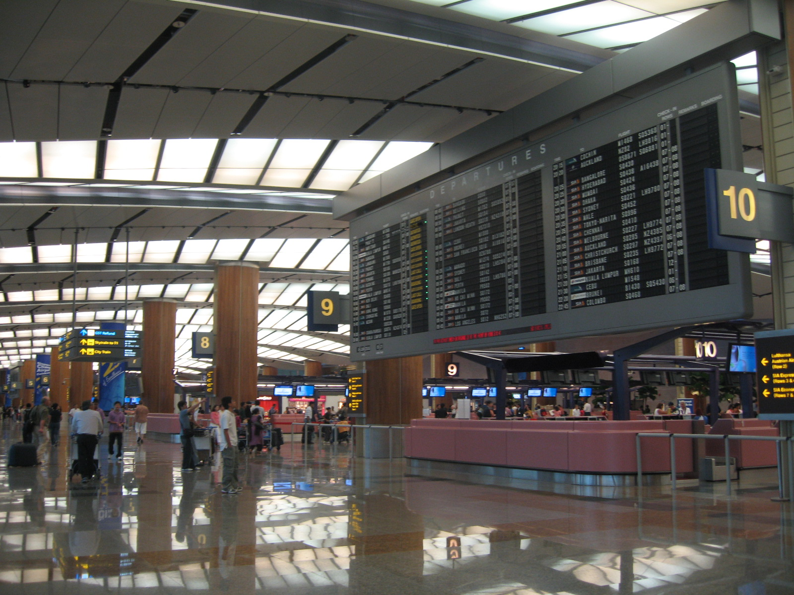 Singapore Changi Airport, Terminal 2, Departure Hall.